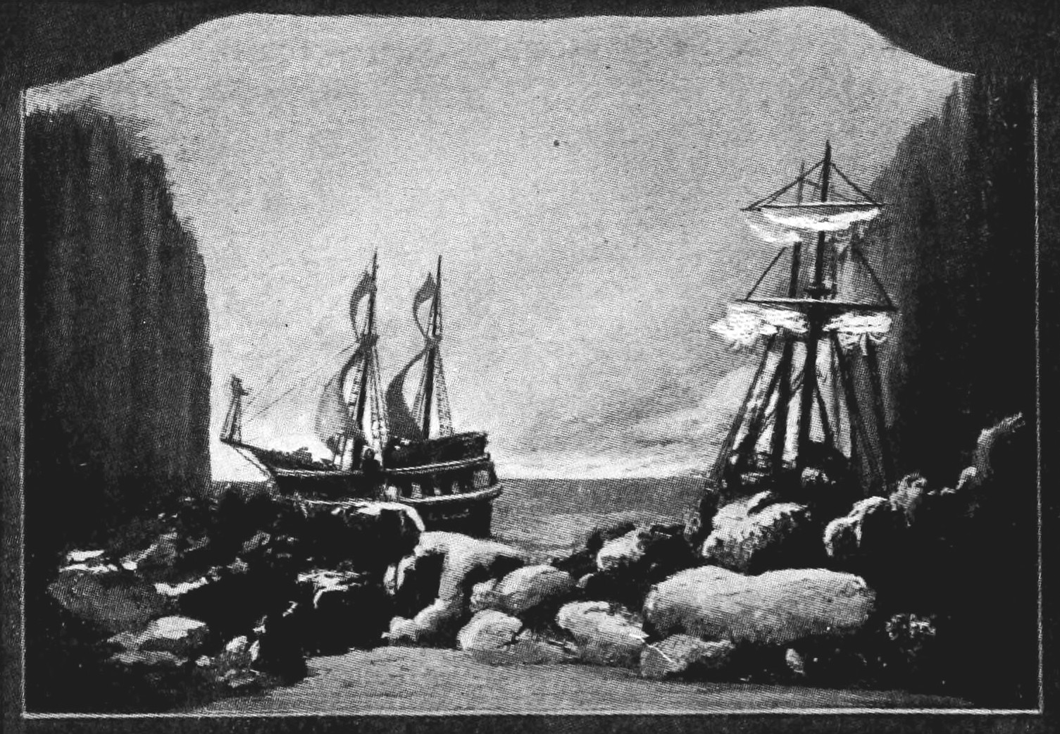 Wagner - Der fliegende Holländer, act I - Setting used in Munich Title: The Victrola book of the opera : stories of one hundred and twenty operas with seven-hundred illustrations and descriptions of twelve-hundred Victor opera records Year: 1917 (1910s) Authors: Victor Talking Machine Company Rous, Samuel Holland Subjects: Operas Publisher: Camden, N.J. : Victor Talking Machine Co. Text Appearing Before Image: ictor WomensChorus (In English) I 35494 Lohengrin—Bridal Chorus 12-in., $1.25By Victor Womens Chorus(In English) _ For home he sighs and sweethearts eyes, My faithful wheel, oh, rush and roar! Ah, if thy breeze but ruld the seas, Twould soon my love to me restore. Maidens spinning! Spin, spin! Sweethearts winning, Tra la ra la la la la! Tra la ra la la la la la la! The maidens are busilyspinning, and their pretty,moving spinning song is apurely lyric number, with adrowsy rhythm most fascinat-ing. Senta, Dalands daughter,is idly dreaming, with hereyes fixed on the fanciful por-trait of the Flying Dutchmanwhich hangs on the wall. The legend of the un-happy Hollander has made astrong impression on theyoung girl, and he seemsalmost a reality to her. Themaidens ridicule her, sayingthat her lover, Eric, will bejealous of the Dutchman. Sentarouses herself and commencesthe ballad, which begins withthe motive of The Curse. Traft ihr das Schiff (Senta* s Ballad) By Johanna Gadski, Soprano 161 Text Appearing After Image: (In German) 88116 12-inch, $3.00 VICTROLA BOOK OF THE OPERA —FLYING DUTCHMAN With growing enthusiasm she goeson, describing the unhappy lot of theman condemned to sail forever on thesea unless redeemed by the love of awoman. Then with emotion she cries